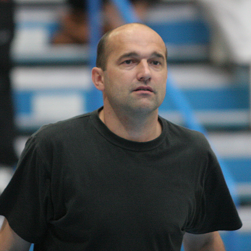 Peter Dávid, handball coach of TV Großwallstadt, on May 23rd 2009 in Aschaffenburg (Germany) during the game TV Großwallstadt vers. MT Melsungen.